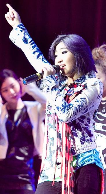 2NE1 performing live in concert in Hanoi, Vietnam.